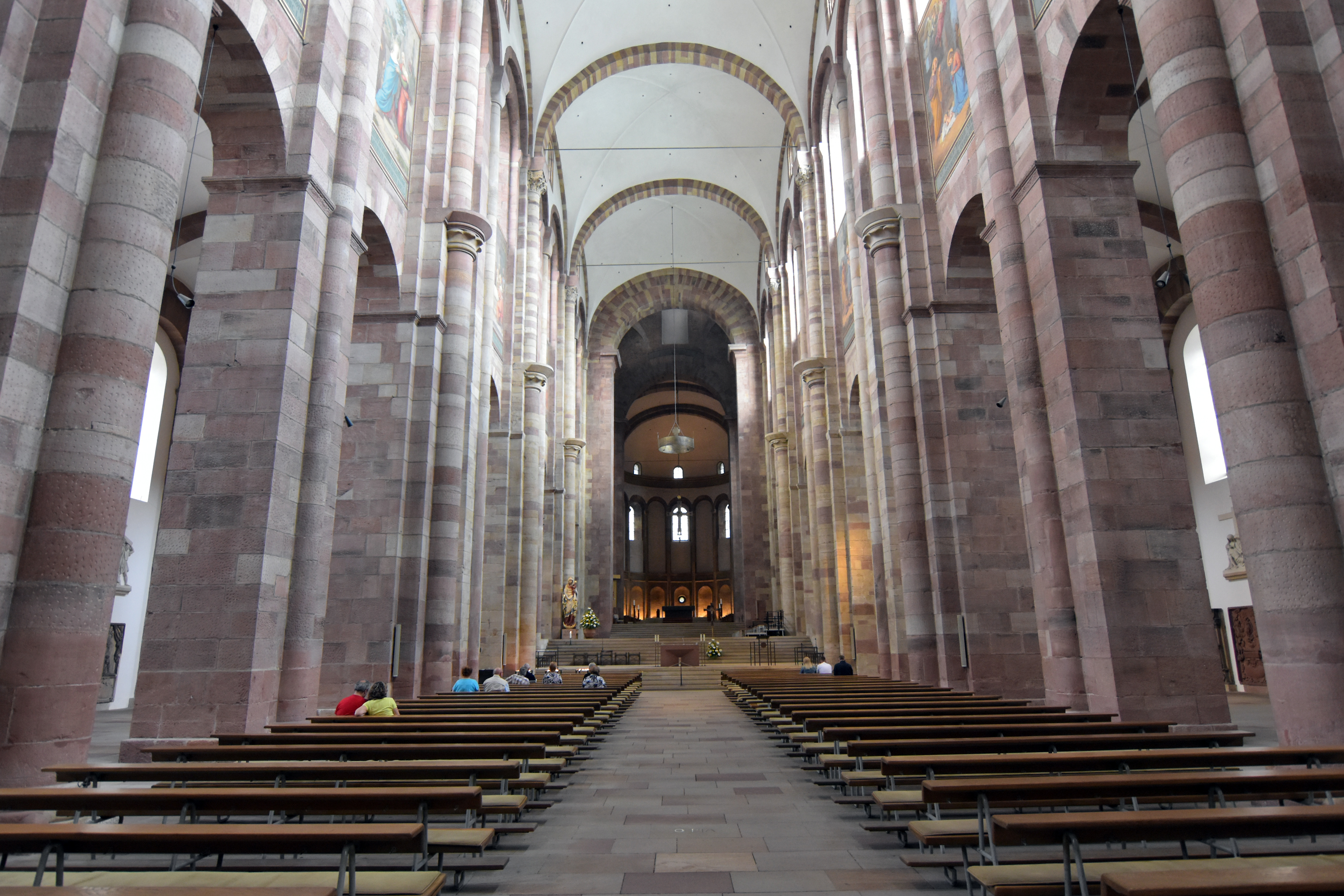 Speyer